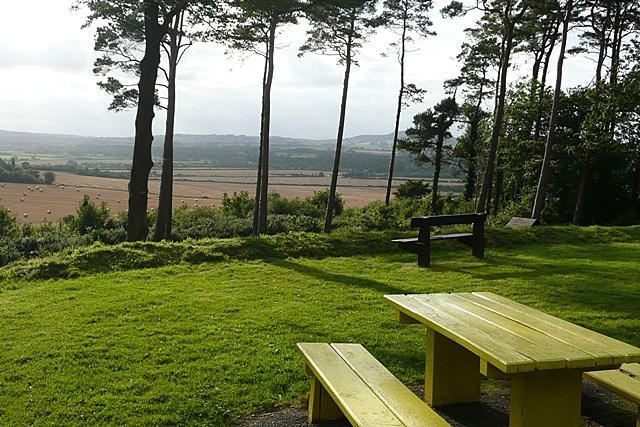 Oughaval picnic site A lovely stop for a picnic just off the N80 between Port Laoise and Carlow. This view is west over the Tomogue River south of Stradbally.